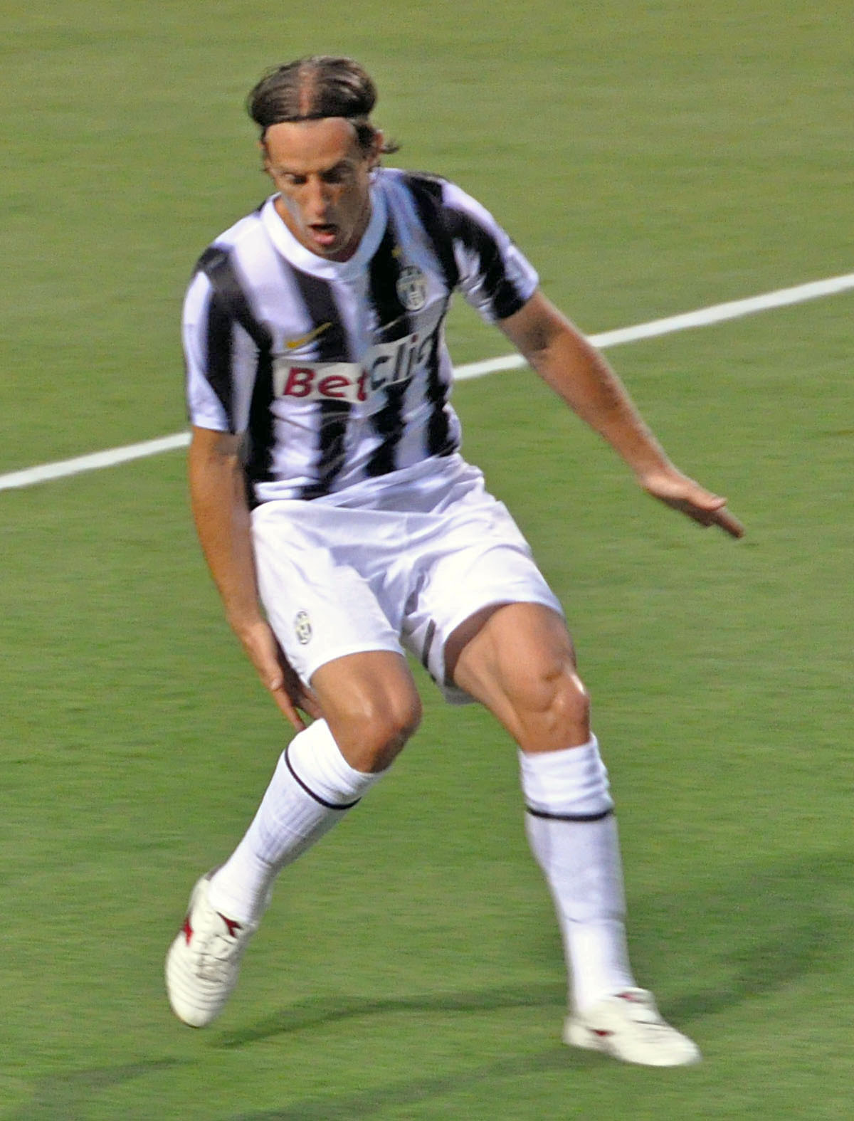 7/28/11 Guadalajara Chivas vs Juventus FC at Carter-Finley Stadium, Raleigh, NC.